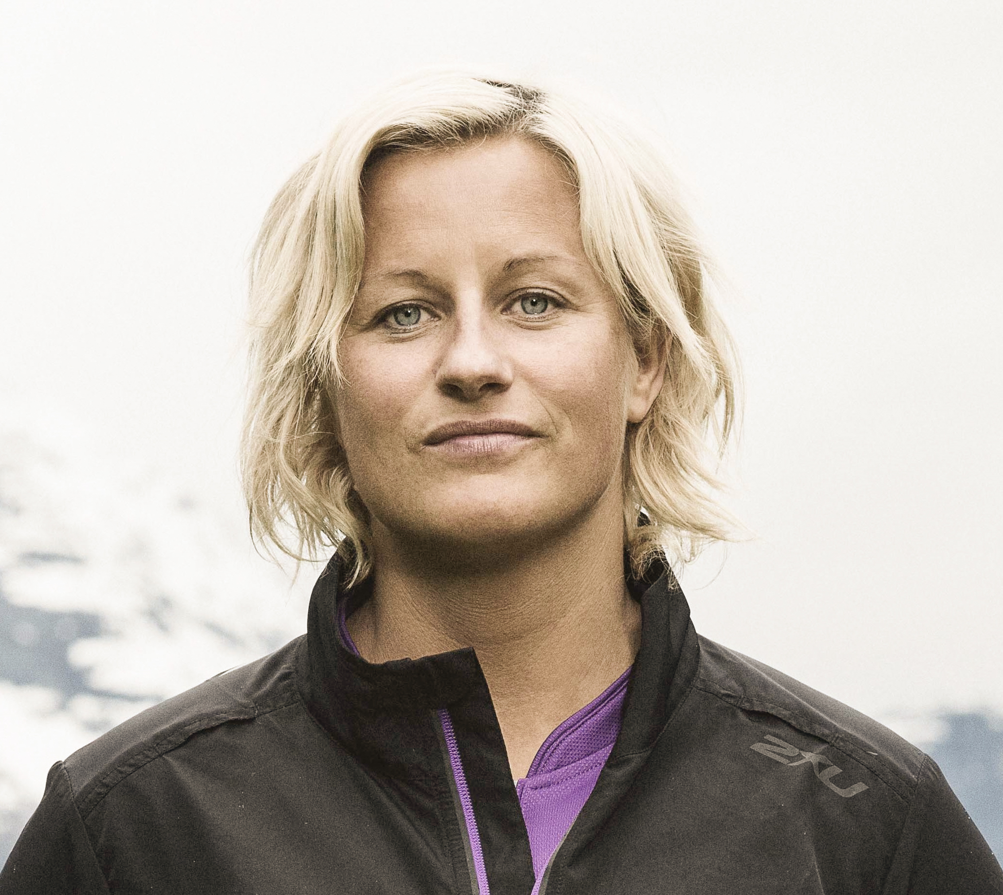 Norwegian cross-country skier Vibeke Skofterud.